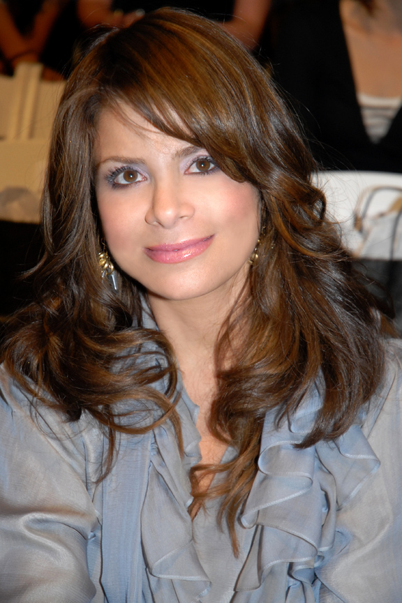 Paula Abdul attending L.A. Fashion Week at Smashbox Studios, Culver City, CA on March 22, 2007 - Photo by Glenn Francis of